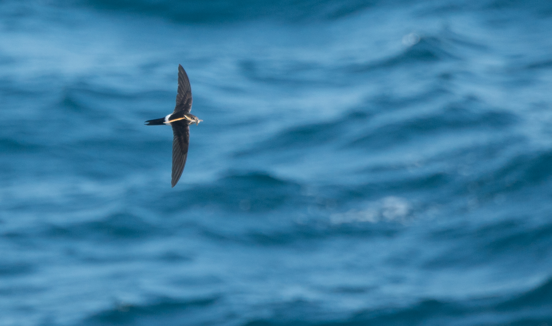 A Pacific Swift flying in Japan. It has got nesting material, probably dry grass, in its beak.